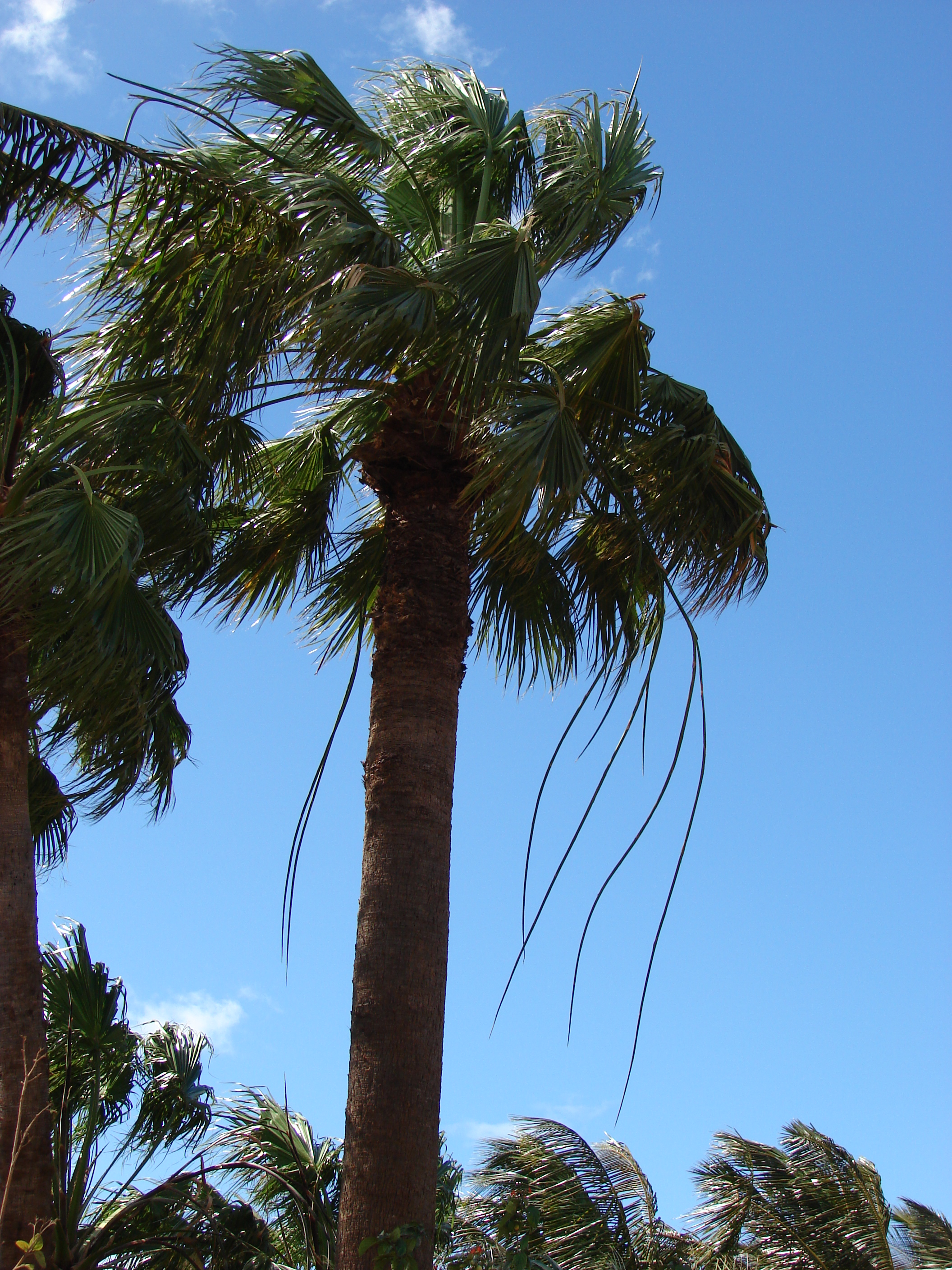 Washingtonia filifera (habit). Location: Maui, Kaanapali